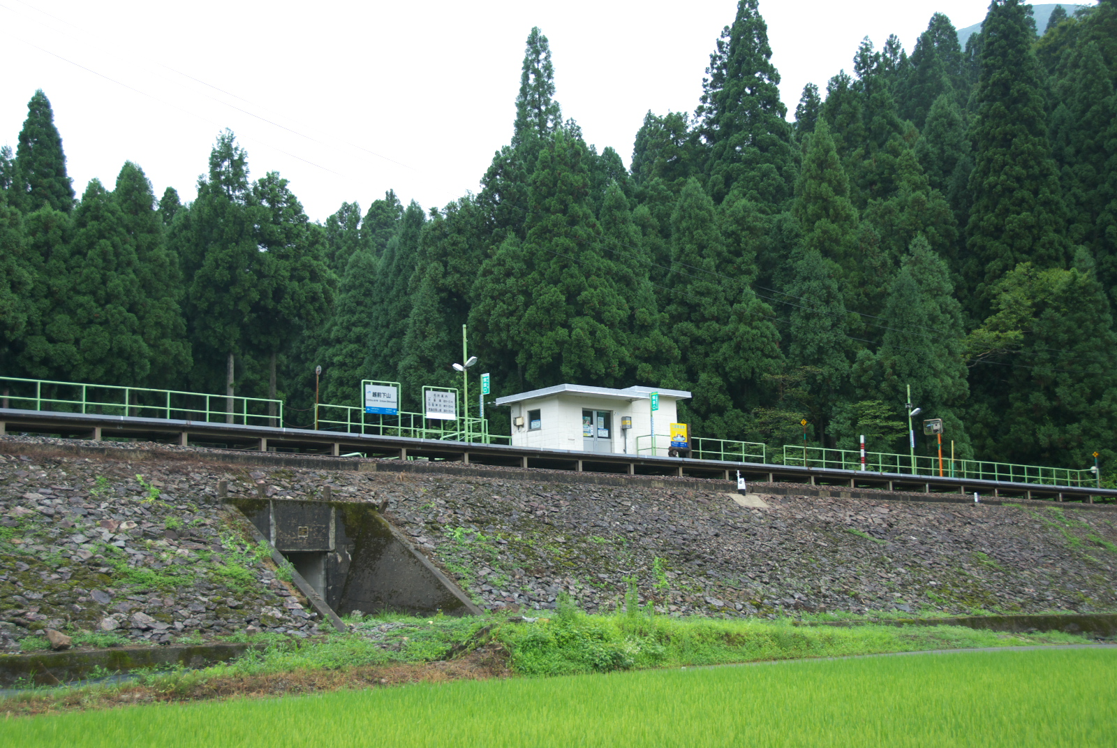 Echizen-Shimoyama Station panorama view.